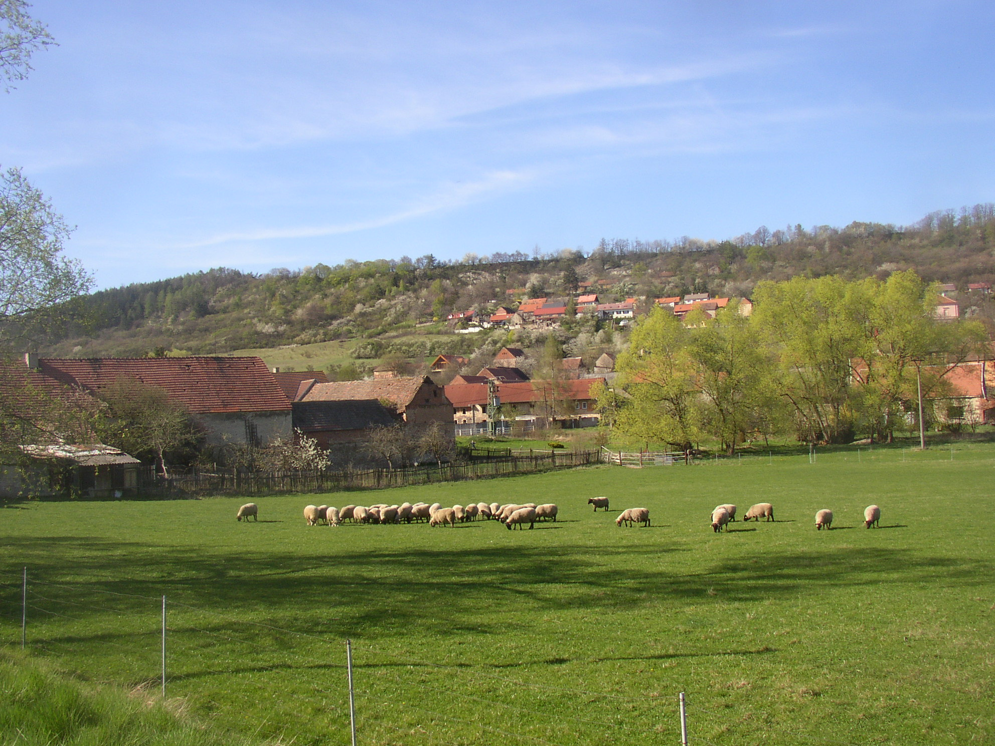 Village of Milý, Rakovník District, Czech Republic. View towards centre of the village from S, from Srbeč - Milý road entering the village.